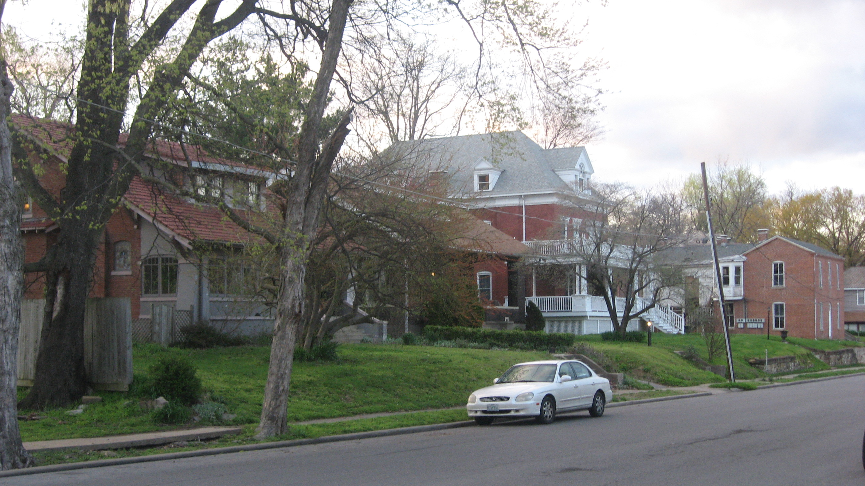 Houses on the western side of the 100 block of S. Lorimier Street in Cape Girardeau, Missouri, United States. This block is part of the Courthouse-Seminary Neighborhood Historic District, a historic district that is listed on the National Register of Historic Places.